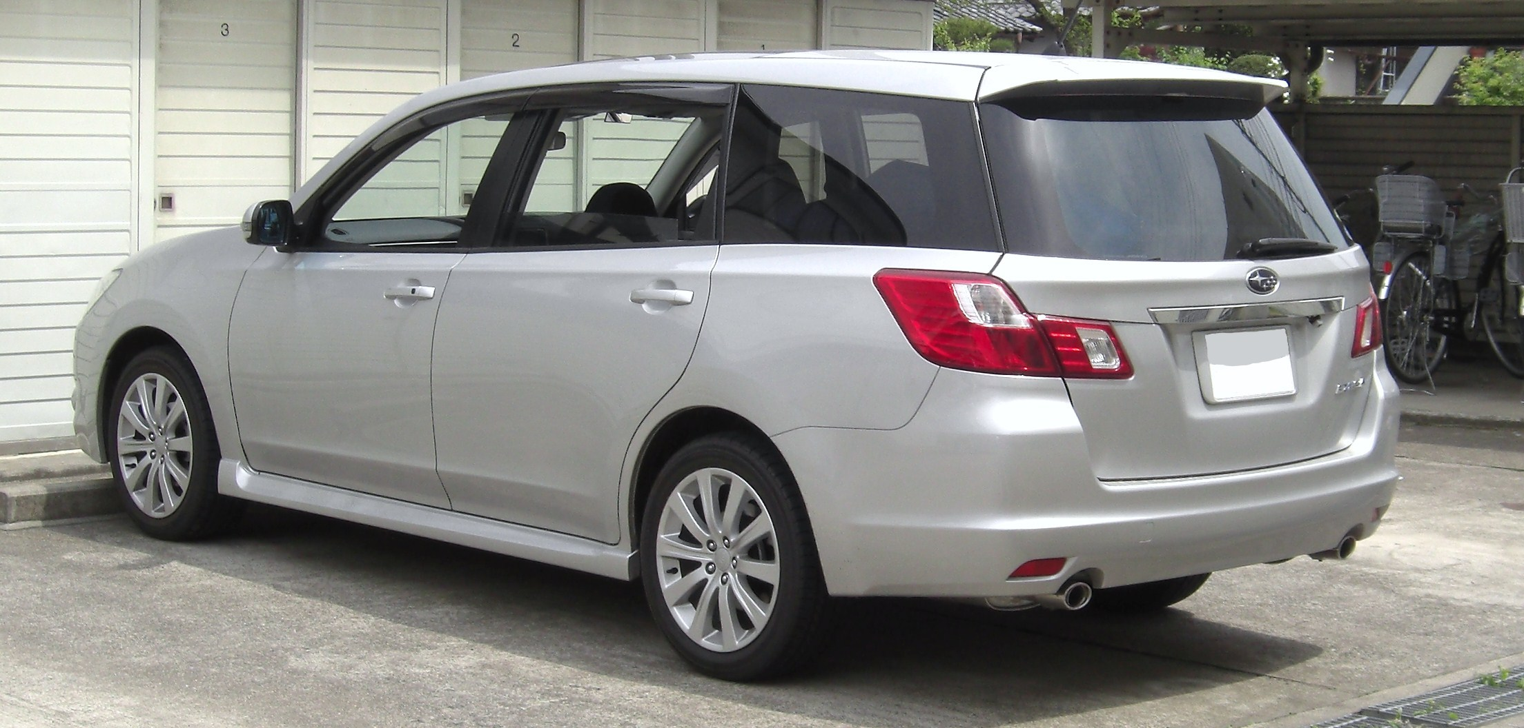 Subaru Exiga